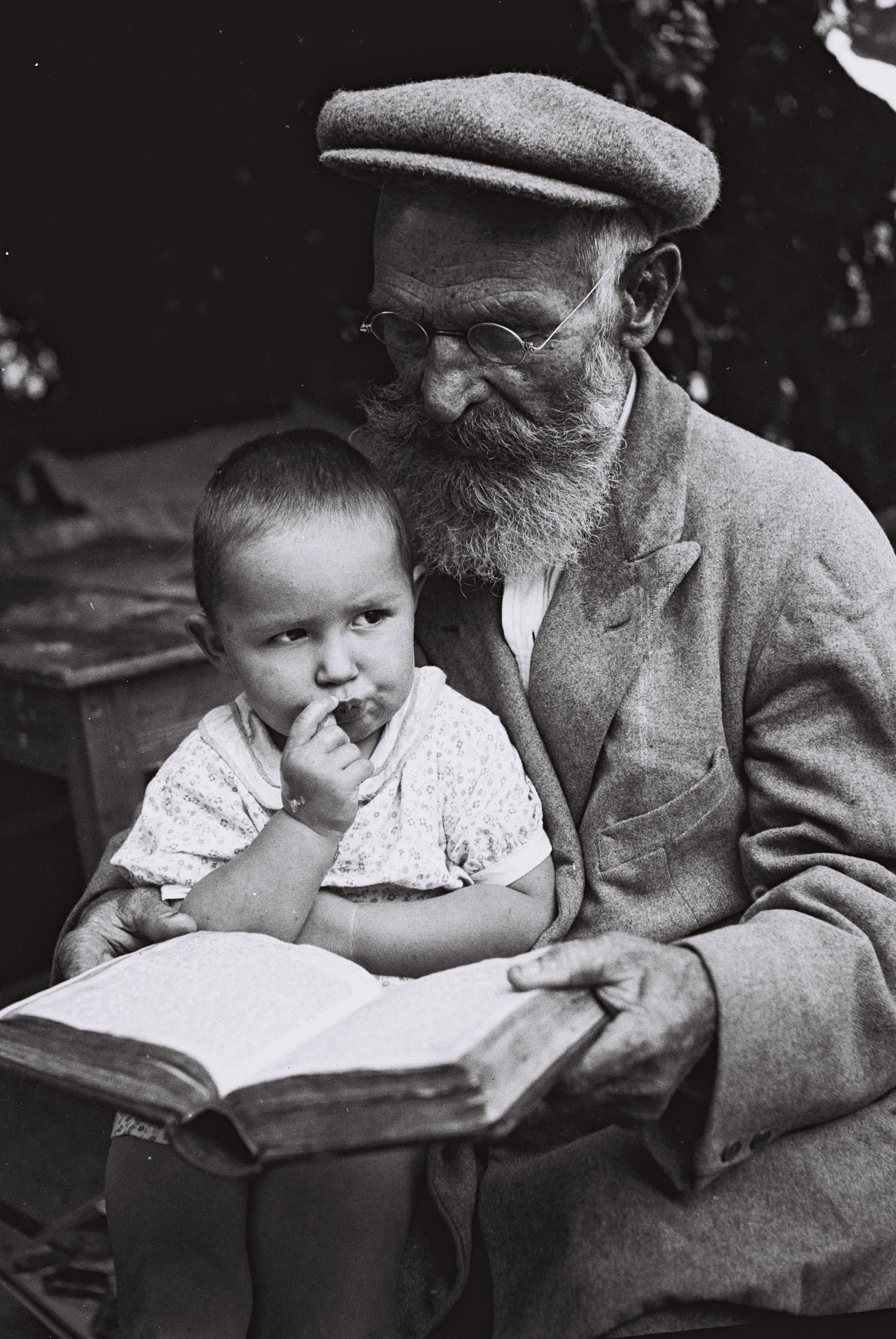 A DUTCH CONVERT TO JUDAISM WITH HIS GRANDCHILD IN HIS LAP, STUDYING THE BIBLE ON HIS FARM IN "NAHALAT YITZHAK" TEL AVIV. הולנדי שהתגייר קורא יחד עם נכדו בתנ"ך, בחווה שלהם בנחלת יצחק, תל אביב.